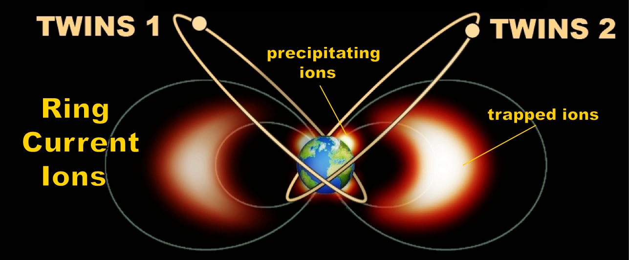 Viewing from two separate Molniya orbits (each having 63.4 degree inclination and 8.2 Earth radius apogee), TWINS 1 and 2 provide simultaneous stereo viewing of trapped and precipitating ions from the terrestrial ring current.